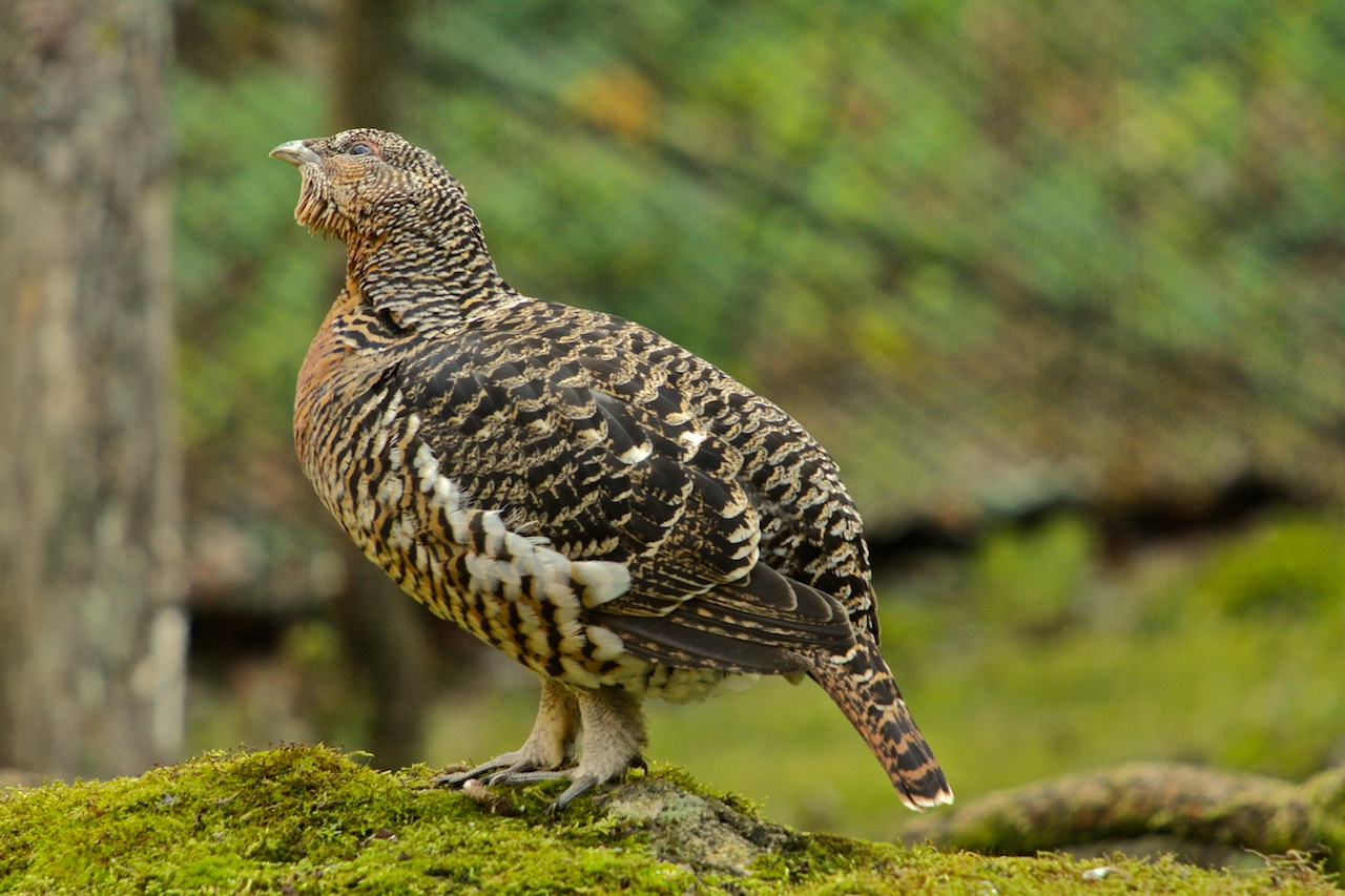 A female Western Capercaillie in Bayerischer Wald, Europe.